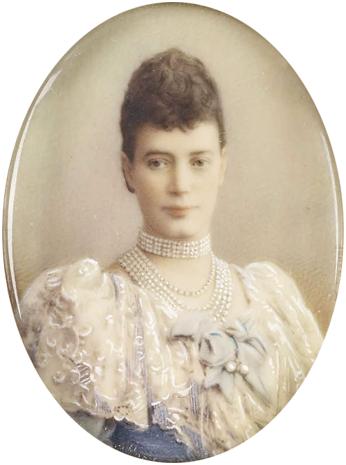 Portrait miniature of the Dowager Tsarina Marie Feodorovna, painted by Johannes Zehngraf and based on a photograph by Alexander Alexandrovich Pasetti of 1894.